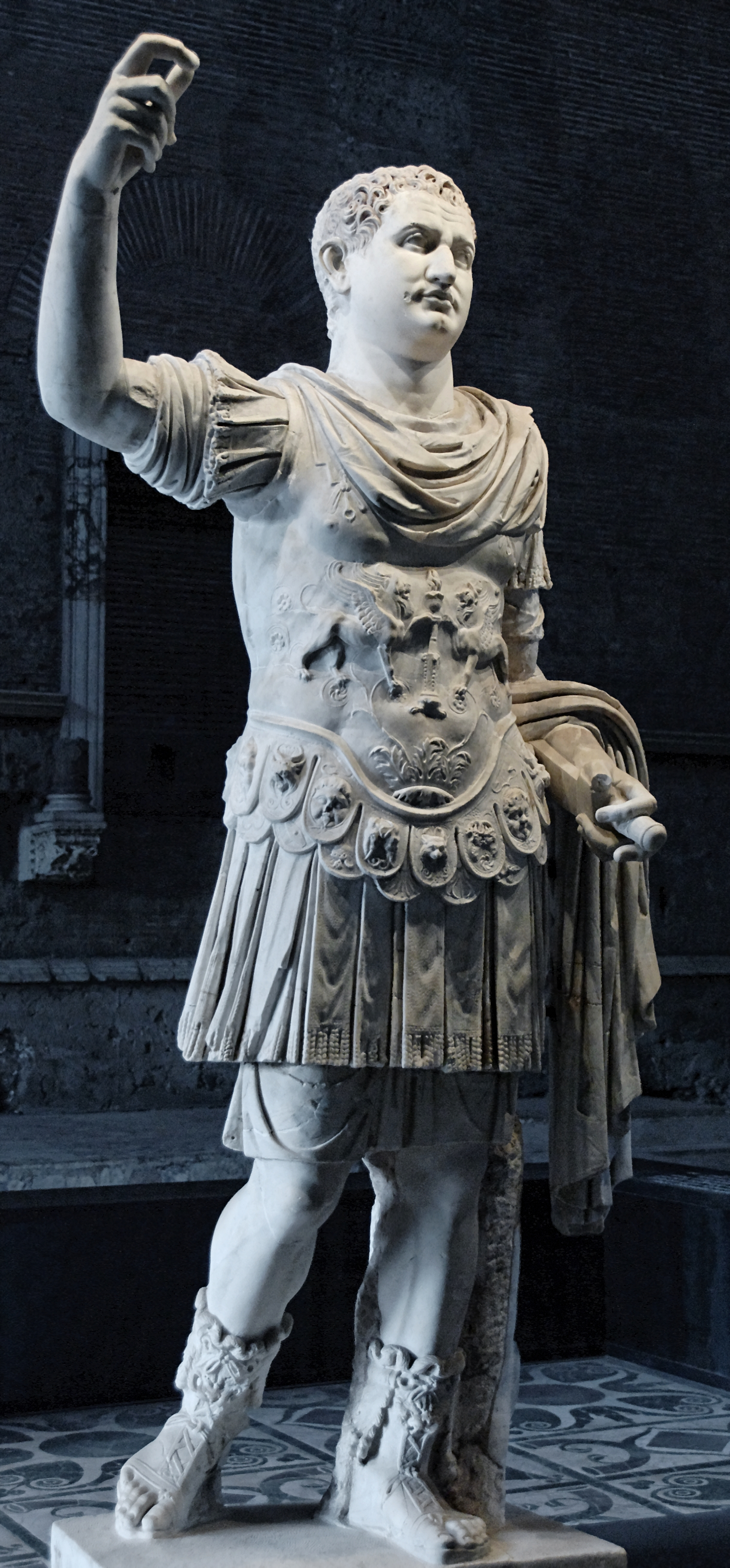 Titus wearing a breastplate with elephants. White marble, Roman artwork, 79 AD. From the basilica of Herculaneum. Museo Archeologico Nazionale of Naples.